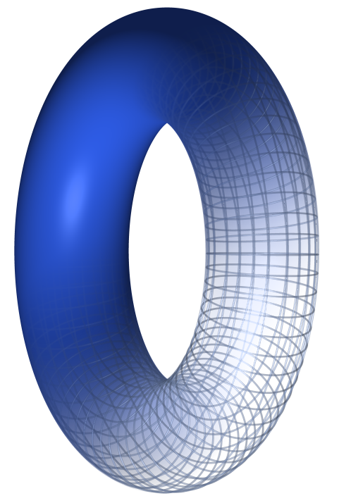 Verical Torus. Rotated fromthe original Torus by LucasVB